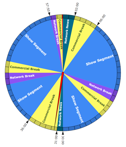 An example radio broadcast clock, automatically computer-generated graphic